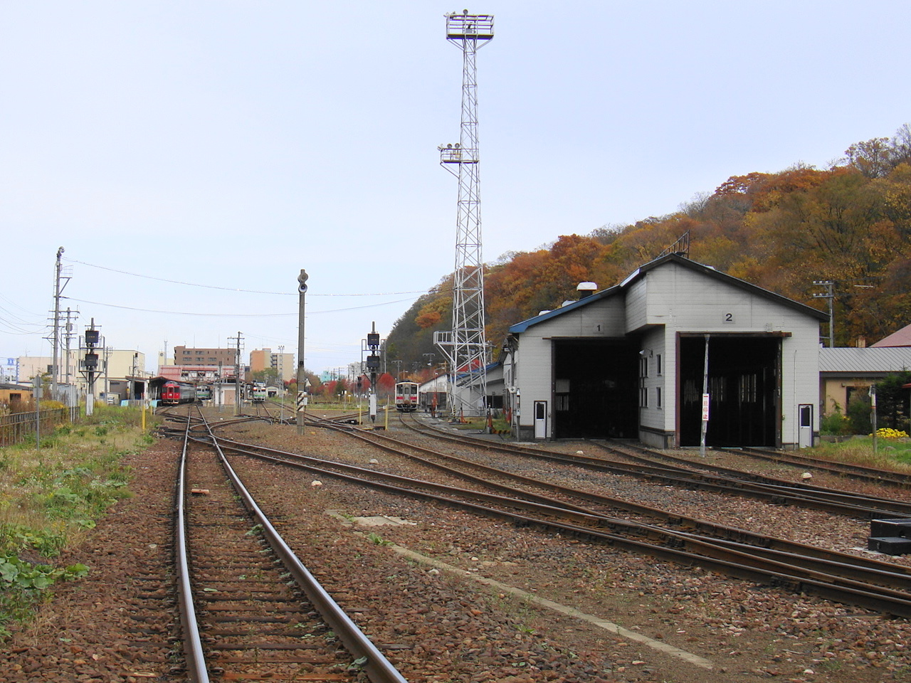 Abashiri Station